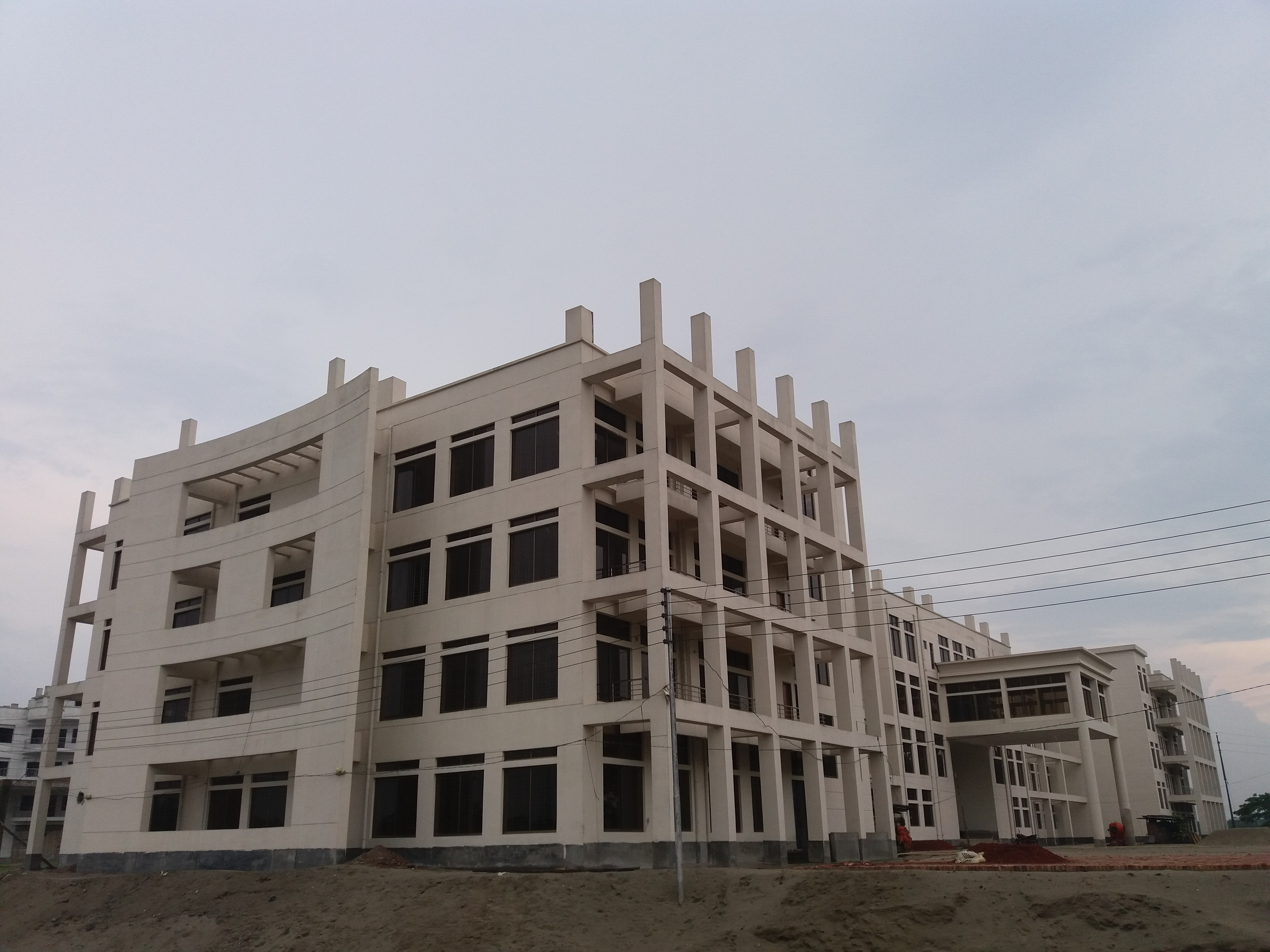 This is a new campass.